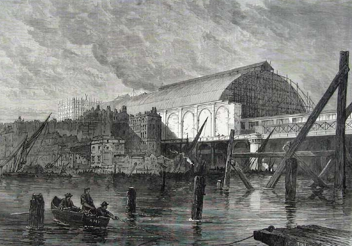 "Charing Cross Railway Station, As Seen From The River" - p164 of the Illustrated London News, 13 Feb 1864, part of an article celebrating the opening of the station although in this picture it is still under construction. The hotel on the far side would not open until the following year. has a coloured-in version.